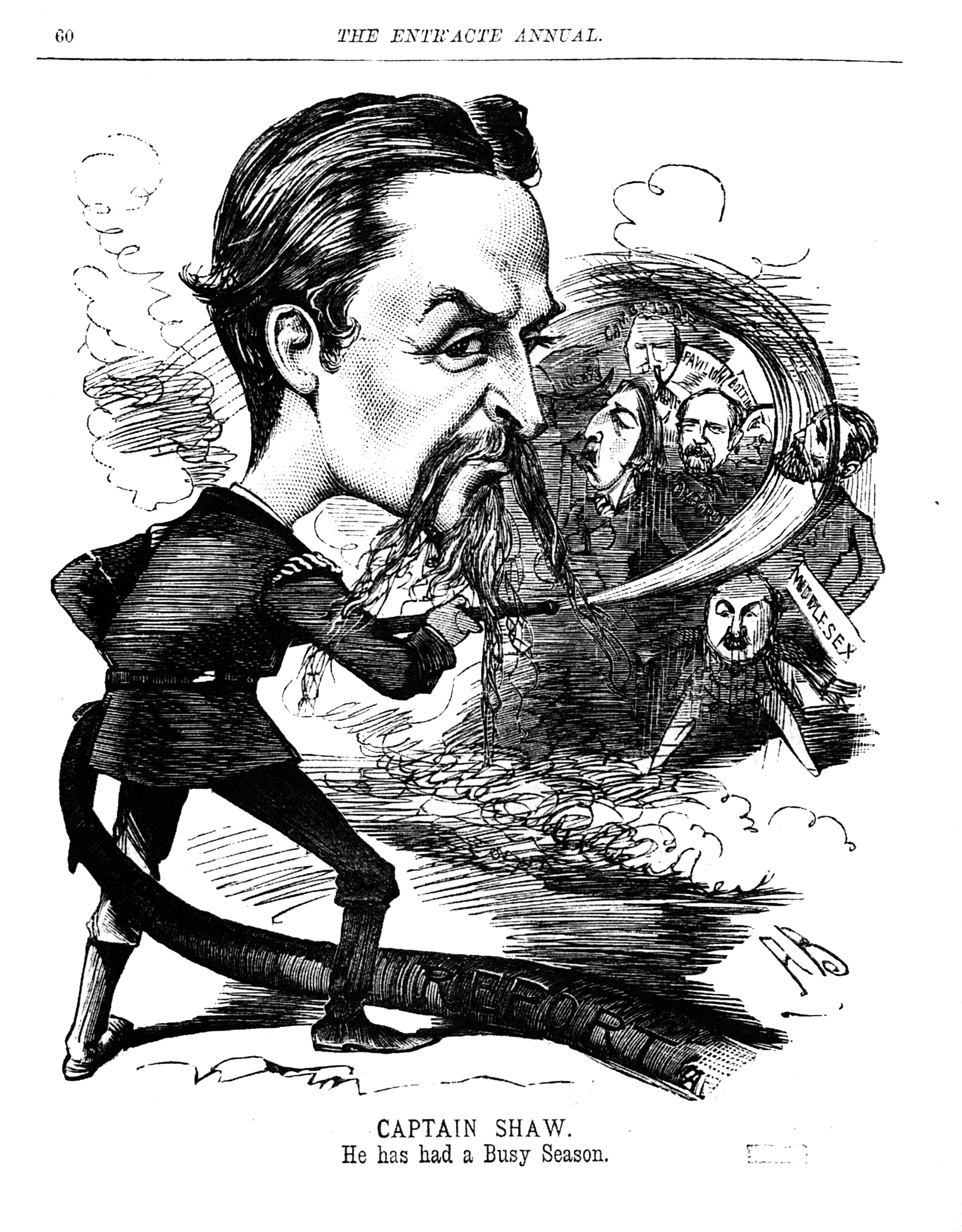 Captain Eyre Massey Shaw and various